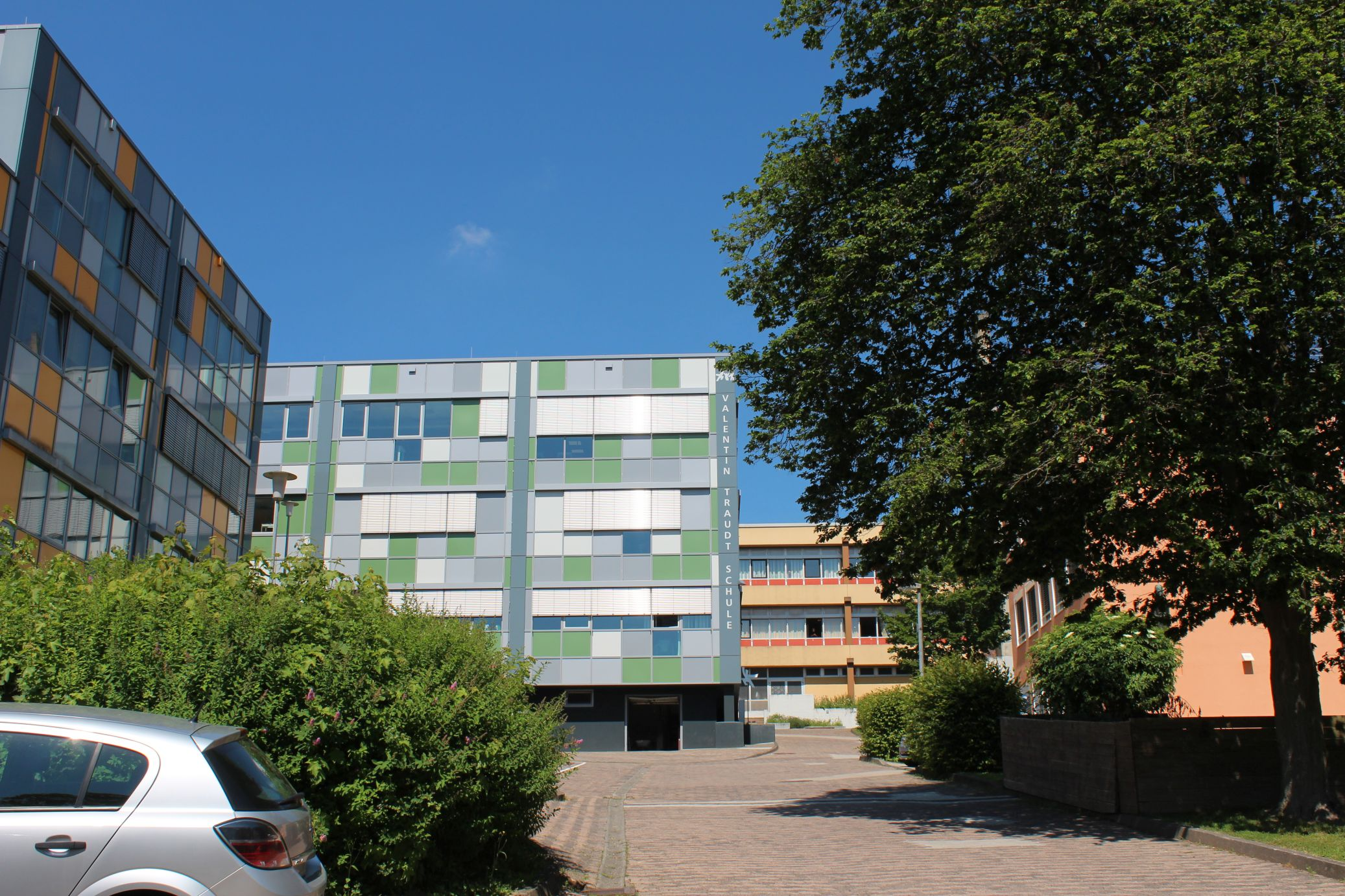 A, B and C section of the Valentin-Traudt-Schule